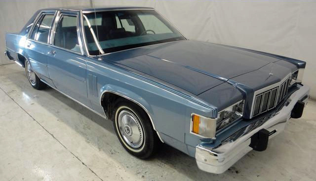 front 3/4 view of a 1980 Mercury Marquis 4-door sedan